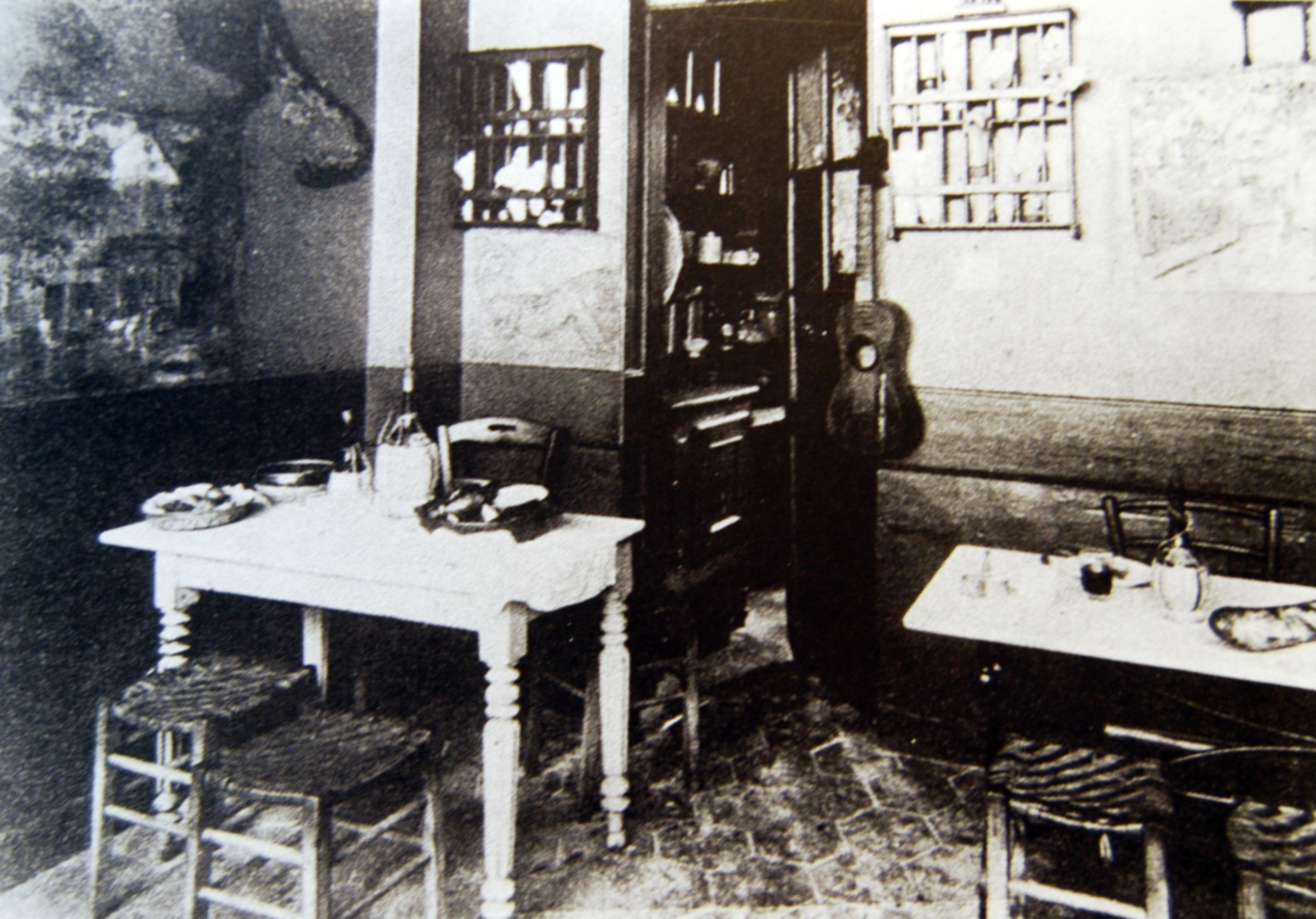 Interior of Chez Rosalie where Modigliani used to eat, circa 1918-21